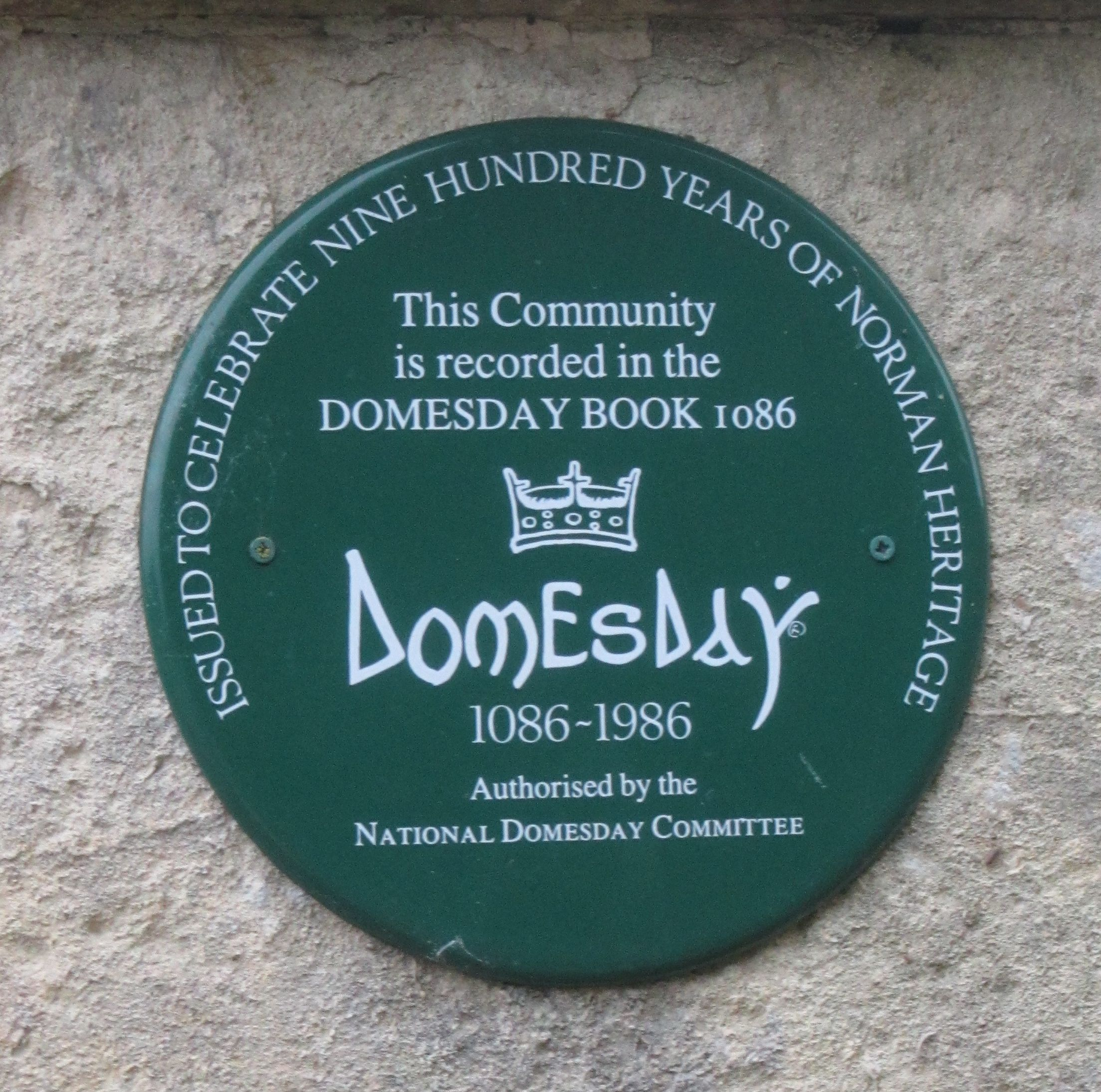 Domesday Book memorial plaque;not a logo of any registered entity, AFAICT.